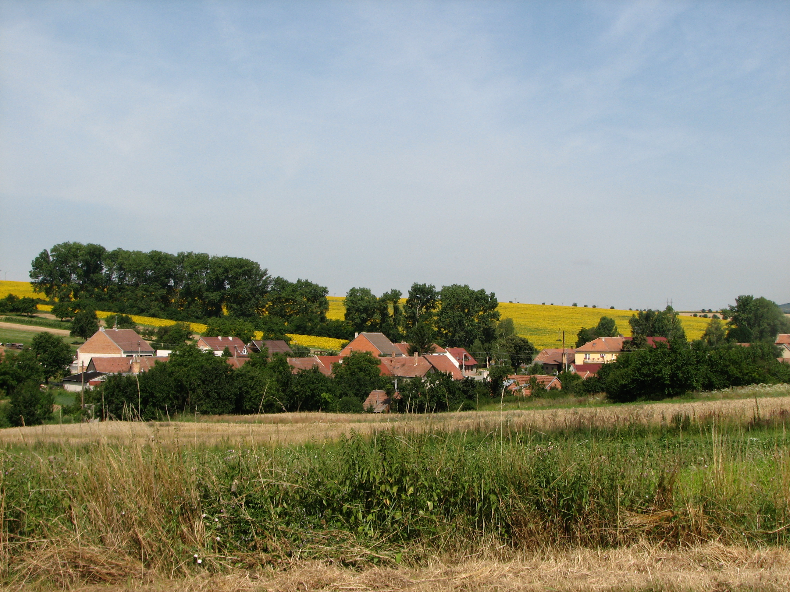 Hýsly - view of the road